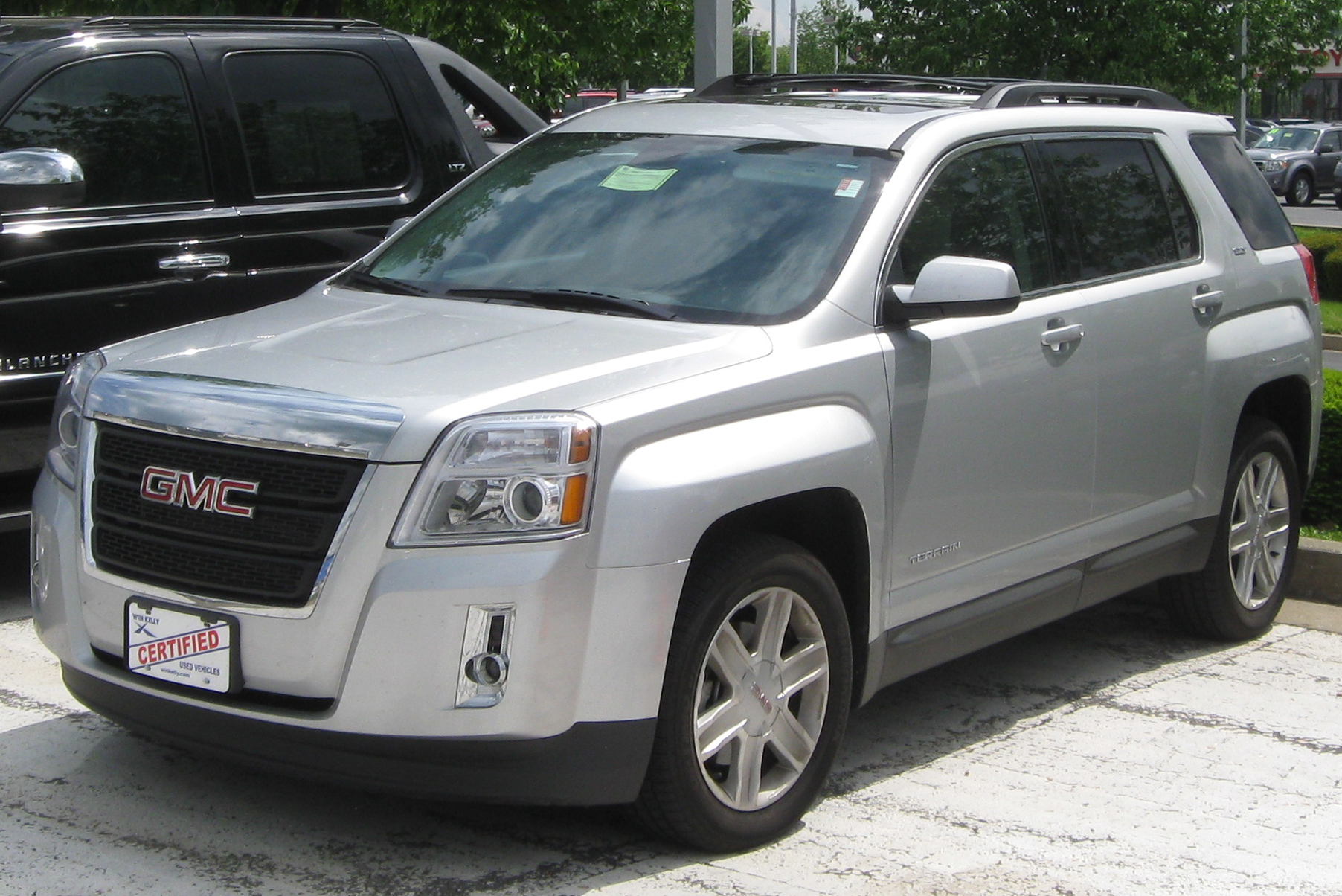 2011 GMC Terrain photographed in Clarksville, Maryland, USA.